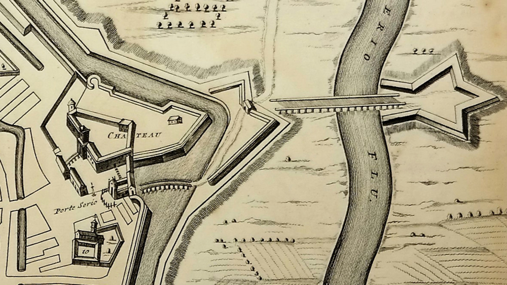 Crema town plant made by Pierre Mortier, particular with the castle demolished in 1809, etching, Amsterdam, 1708